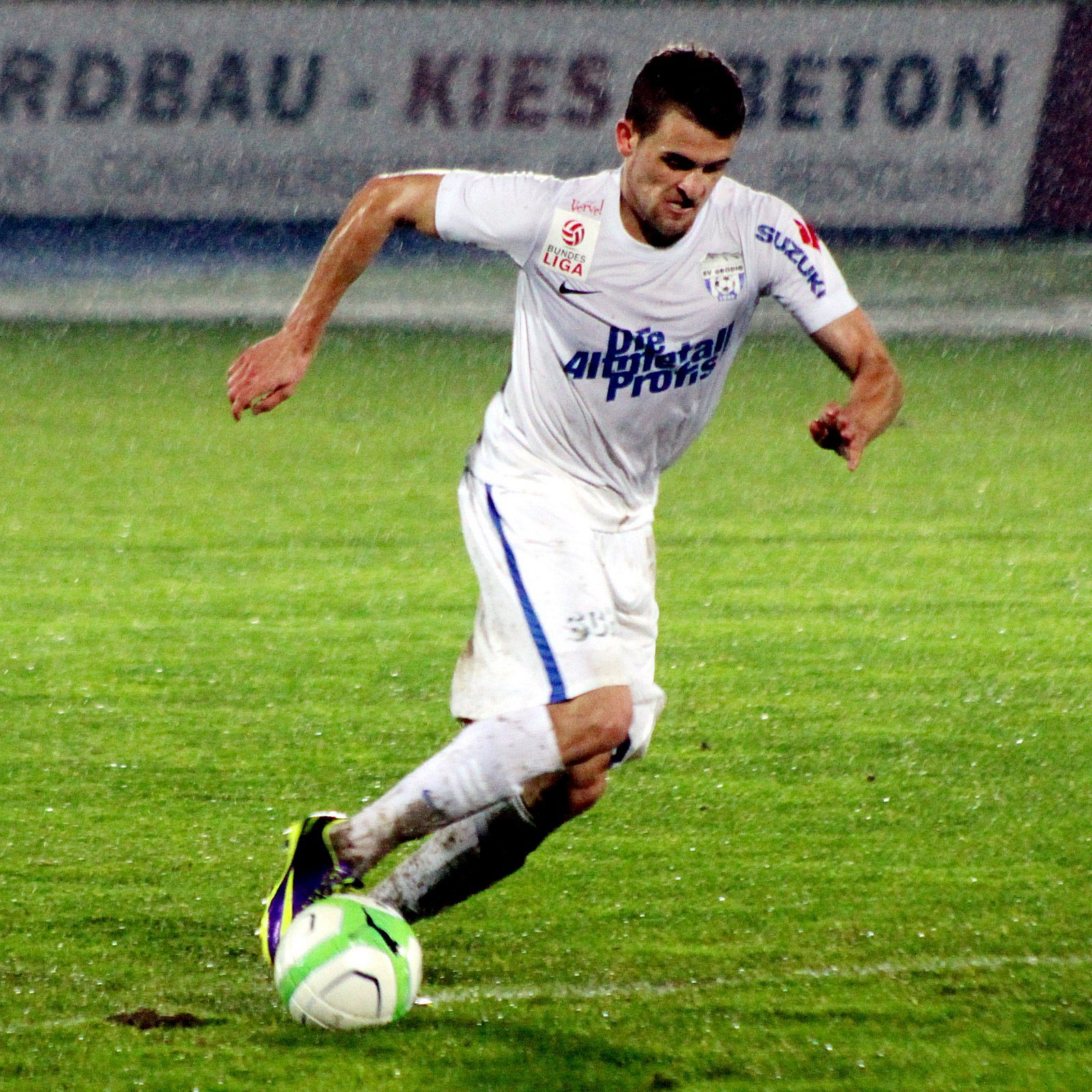 Austrian Football Bundesliga: SC Wiener Neustadt vs. SV Grödig (0:2) at 2013-11-23 in the Stadion Wiener Neustadt. – The photo shows Philipp Huspek (SV Grödig).